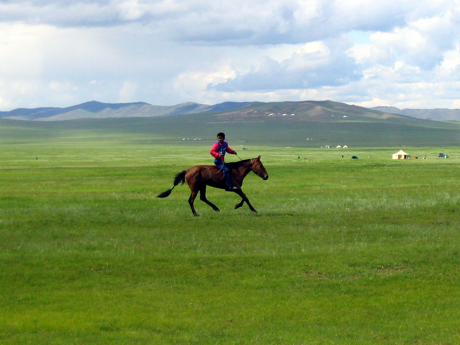 Boy participating in horse race at Naadam in Mongolia